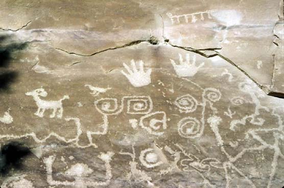 A petroglyph in Mesa Verde National Park. The boxy spiral shape likely represents the sipapu, the place where the Hopi believe they emerged from the earth. A petroglyph is an image pecked or engraved on a rock surface. According to one Hopi elder, this petroglyph, found on Mesa Verde’s Petroglyph Point Trail, may tell the story of two clans (the Mountain Sheep Clan and the Eagle Clan) separating from other people and returning to their place of origin. Notice the boxy spiral shape? This likely represents a sipapu, the place where Pueblo people believe they emerged from the earth (believed to be near the Grand Canyon). You can also see the head and arms of a figure, and on the bottom right, a possible Katsina clan symbol. Like many petroglyphs, this panel seems intended to communicate the oral stories that keep Native American cultures alive. Sadly, some ancient petroglyphs at Mesa Verde have been destroyed by recent fires. On the other hand, many tribes believe that human creations such as these were meant to fall back to the earth rather than to be preserved beyond their natural life. The stories and interpretations of them change over time, much as stories do that are passed down in your own family and culture.